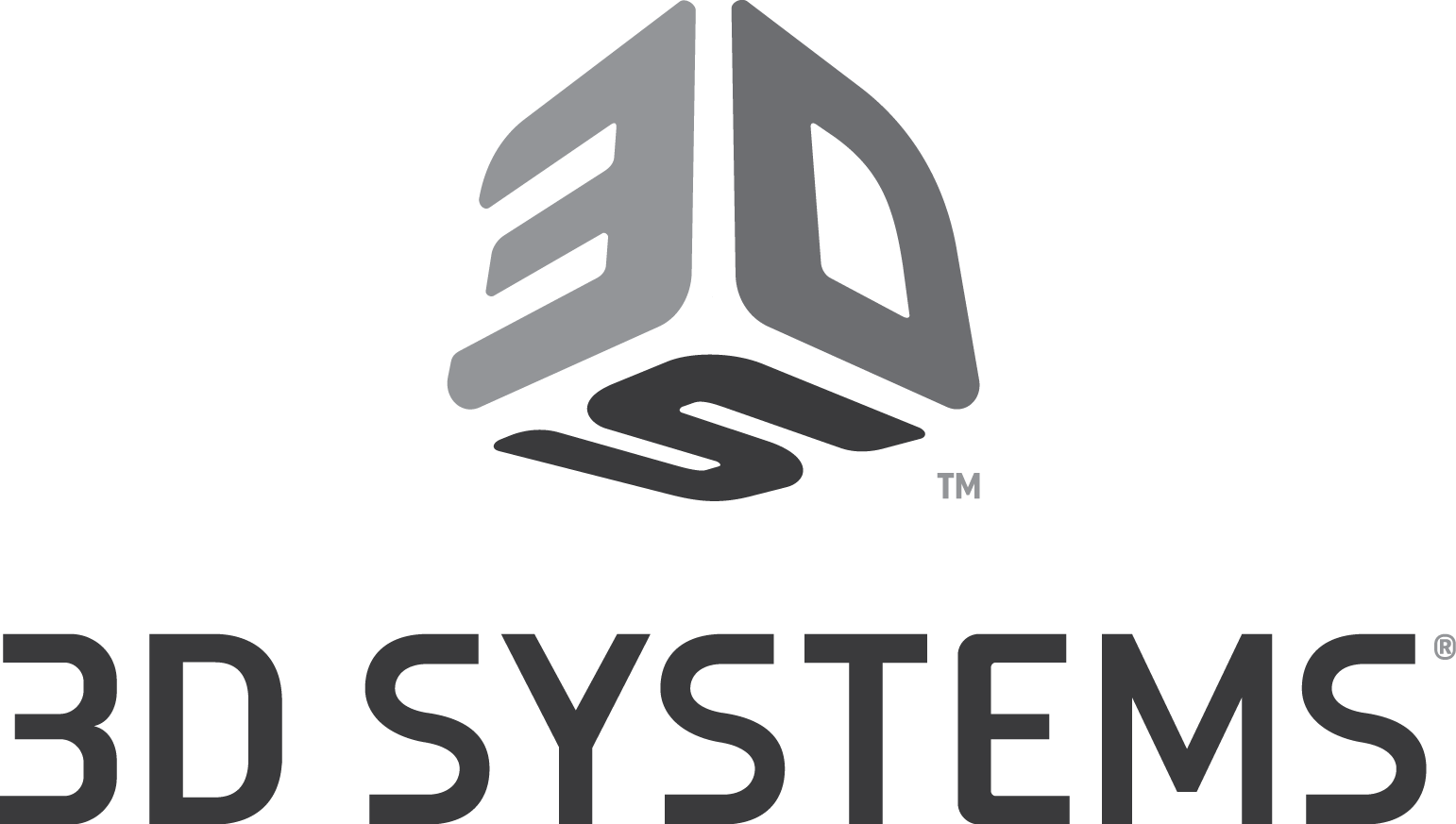 3D Systems Logo (Vertical, Light Background)